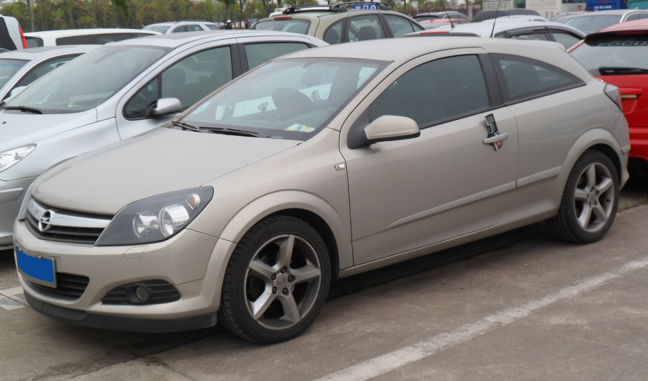 Opel Astra H GTC photographed in Anting, Shanghai municipality, China.